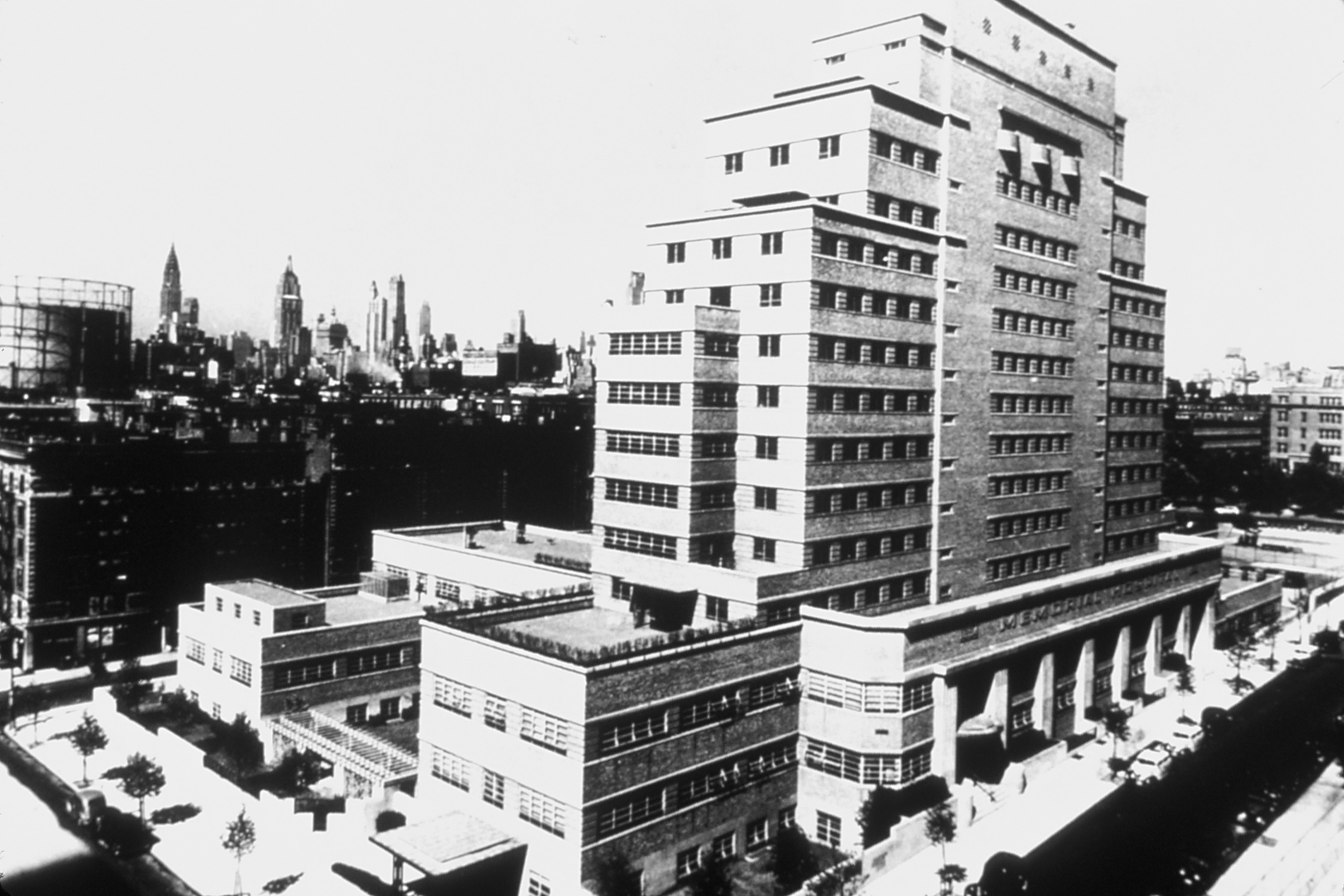 Title Memorial Sloan-Kettering Cancer Center Description New York Cancer Hospital in 1884 (precursor of MSK) and Memorial Sloan-Kettering Cancer Center in 1939 and 1968. Topics/Categories Historical, Graphics Locations, Clinic/Hospital Type B&W, Photo Source Memorial Sloan Kettering